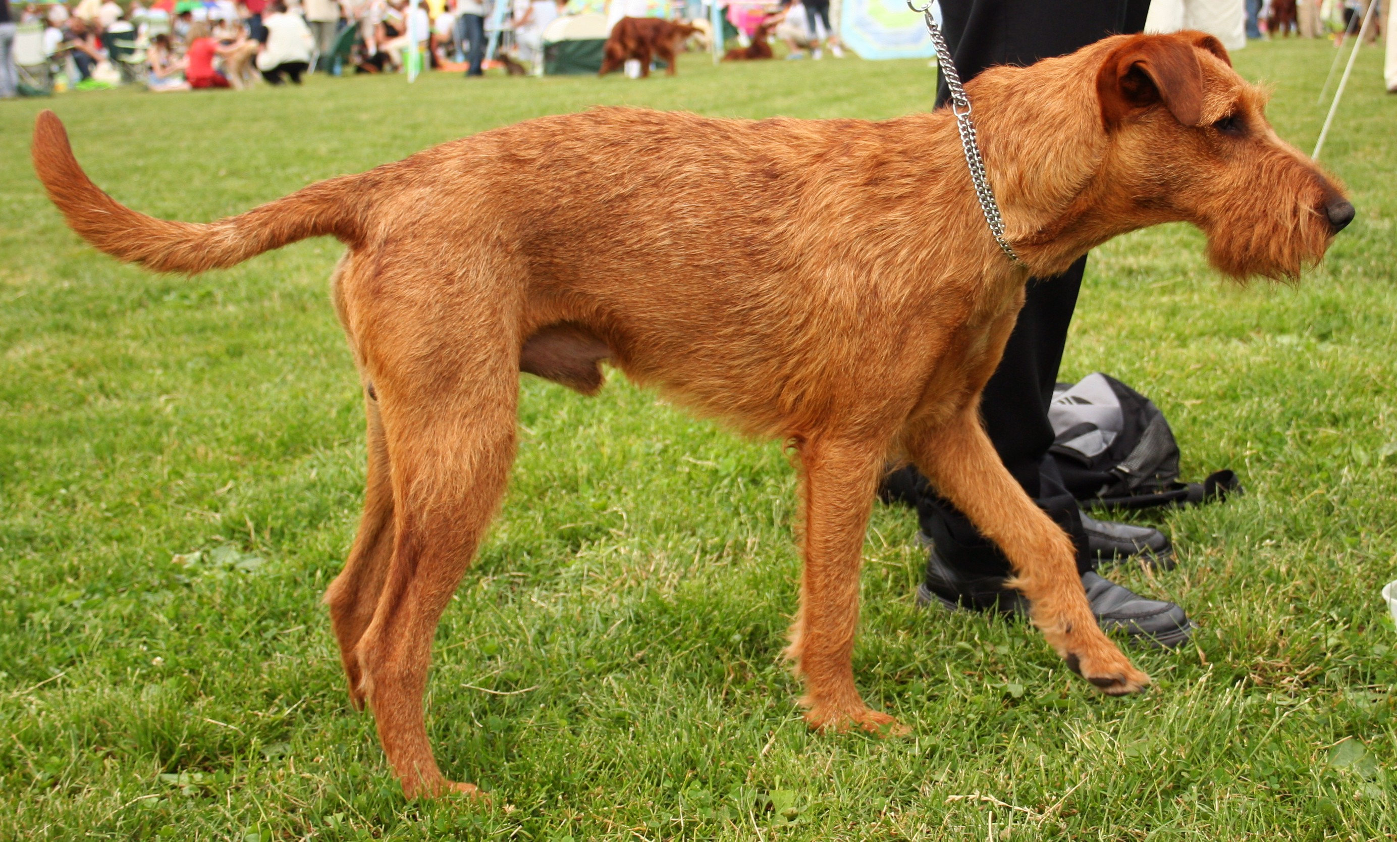 Irish Red Terrier during dog's show in Racibórz, Poland